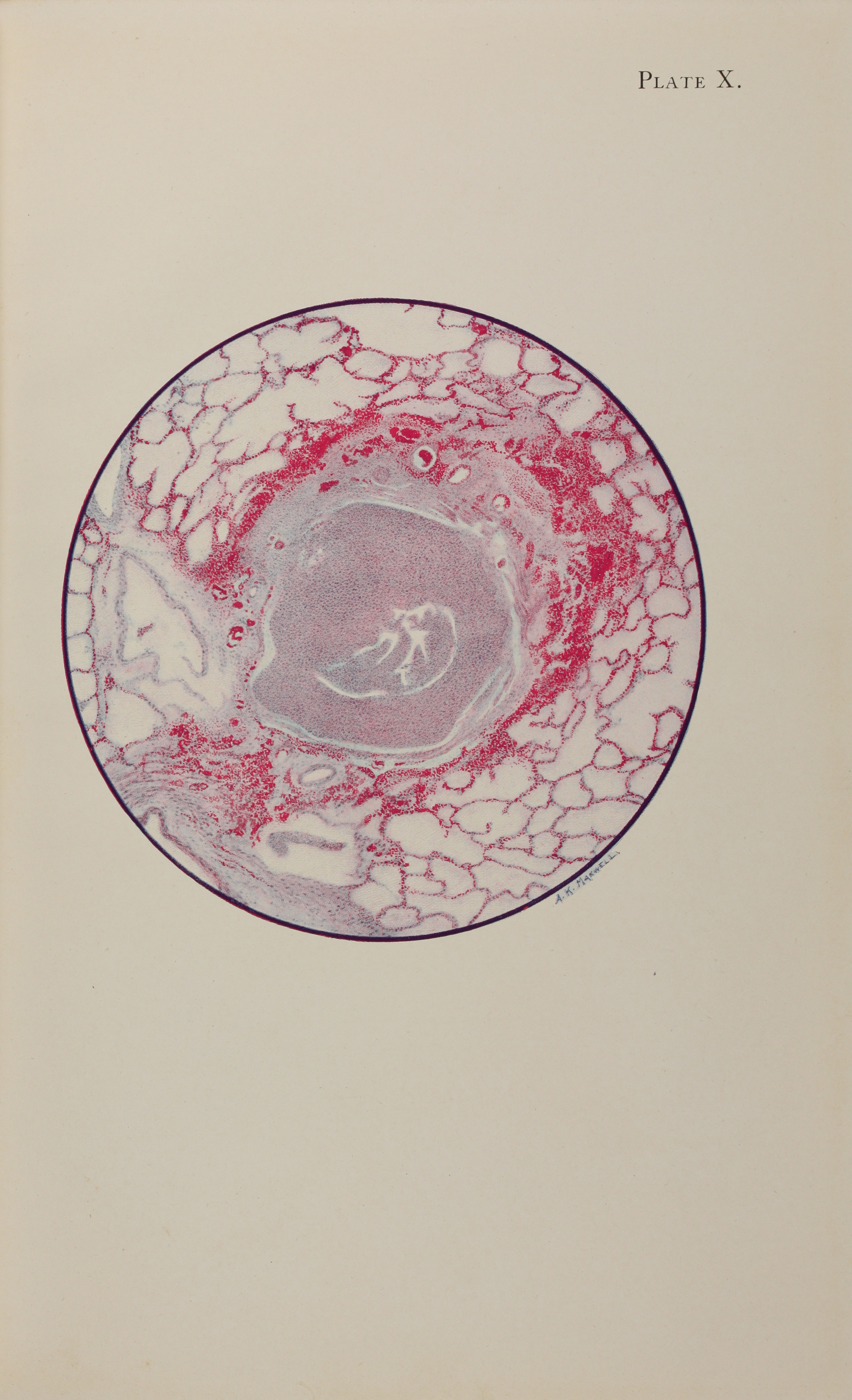 Plate X from An Atlas of Gas Poisoning by the American Red Cross and Medical Research Committee (American Red Cross, 1918). Plate title: "Microscopic section of human lung from mustard gas poisoning, with death at end of second day (40 hours)." Text begins: "The bronchiole is filled with fibrin and pus cells, and its lining epithelium has been completely destroyed. The inflammation has caused a characteristic ring of haemorrhage in the tissues around the bronchial tube, and infection is beginning to appear in the alveoli nearest to these inflamed tissues. But there is no generalised pulmonary oedema and no disruptive emphysema. ... " The American Red Cross published this guide for the American Expeditionary Force in World War I, sometimes called the "chemists’ war." The chromolithograph plates of characteristic injuries were intended to help inexperienced officers identify the type of gas used in attacks.